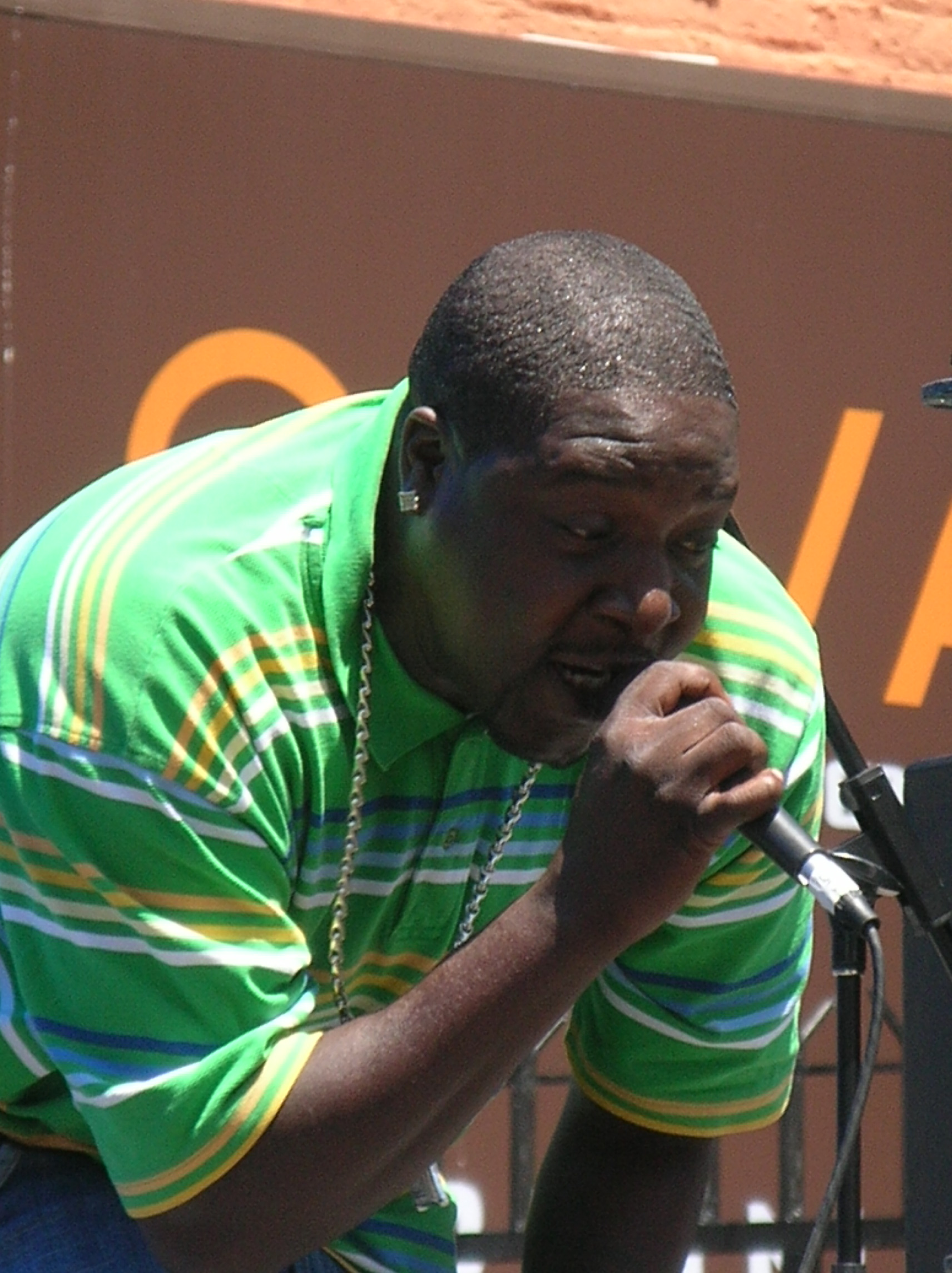 Ray Luv performing at the 5th Annual Asian Heritage Street Celebration in San Francisco, California.